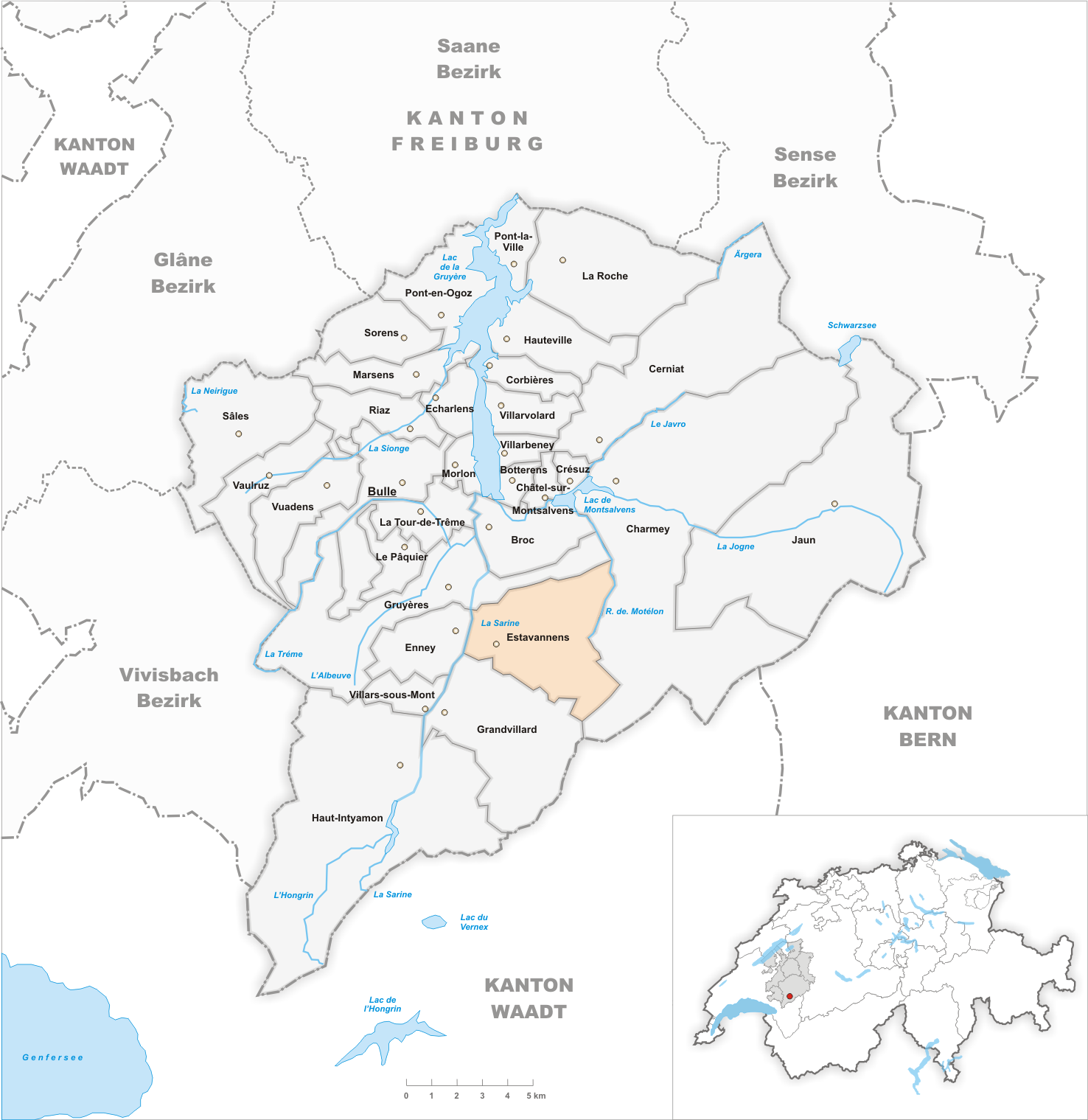 Municipality Estavannens Artist: Tschubby